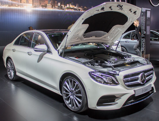 Mercedes-Benz W213 (E-class) at North-American (Detroit) Auto Show, january 2016